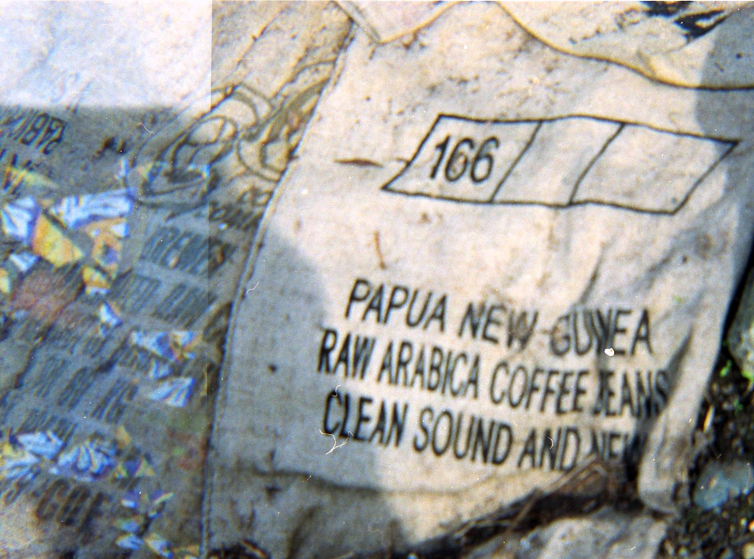 Papua New Guinean coffee